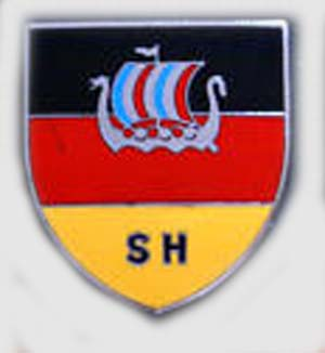 Internal coat of arms Stab Territorialkommando Schleswig-Holstein (Stab TerrKdo S-H) of the Bundeswehr (Armed Forces of the Federal Republic of Germany). → Remarks on naming and categorization scheme